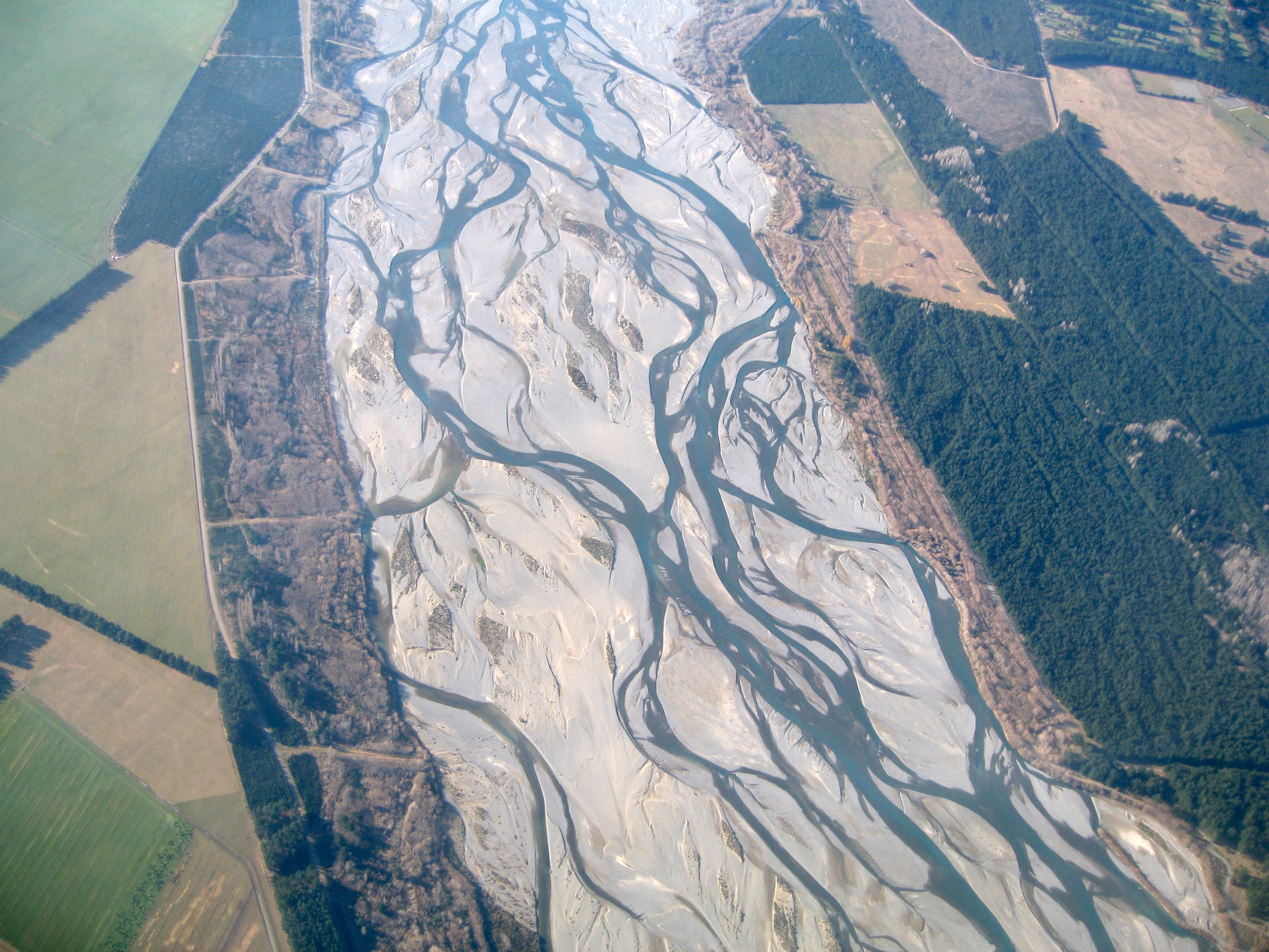 Waimakariri River, Canterbury, New Zealand.